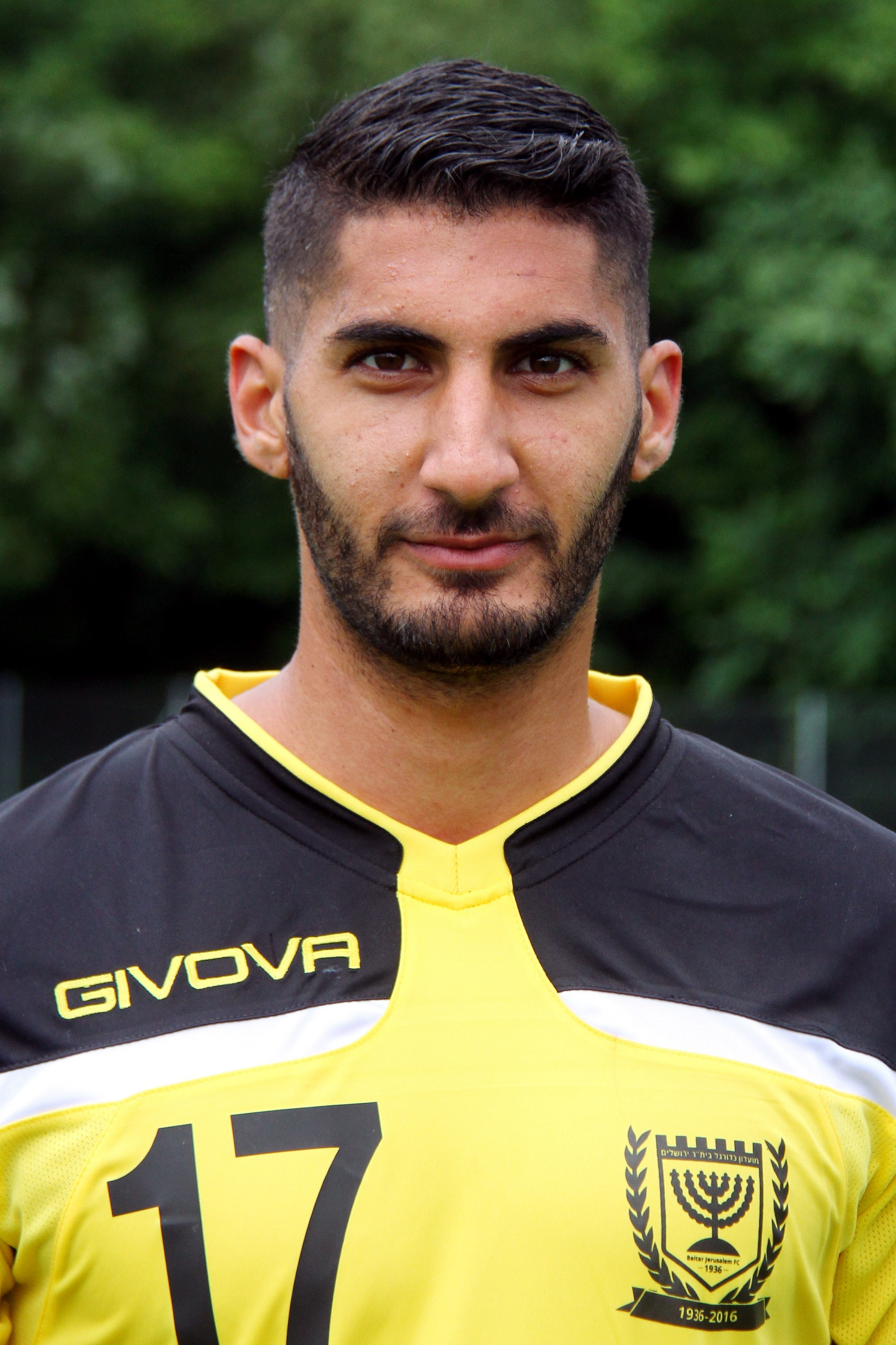 Friendly match between Beitar Jerusalem F.C. (yellow shirts) and MTK Budapest FC (blue shirts) at 2016-06-18 in Bad Erlach (Austria. – The photo shows Lidor Cohen, Beitar Jerusalem F.C.